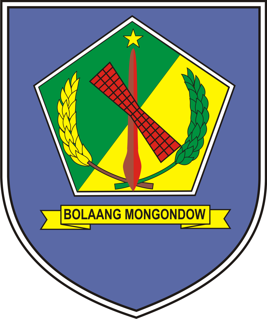 Seal of Bolaang Mongondow Regency